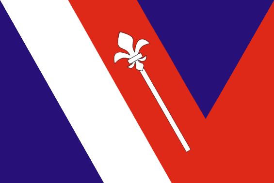 Municipal flag of Bzenec town, Hodonín District, Czech Republic